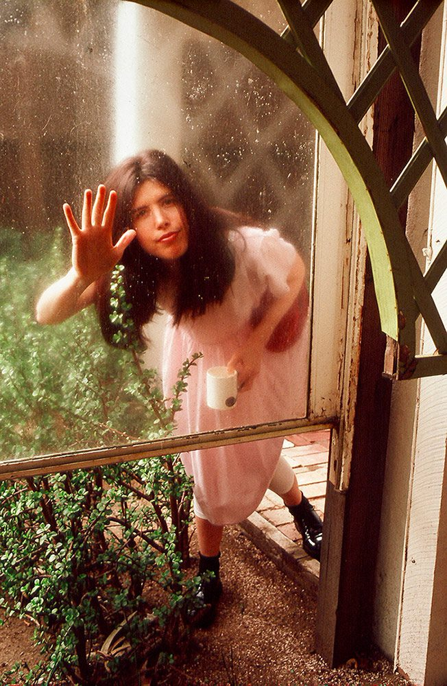 Photograph of singer / songwriter Victoria Williams. Taken in her Laurel Canyon yard in the early 1990's.